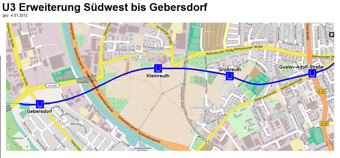 Map of U-Bahn_Nürnberg. This map may be incomplete, and may contain errors. Don't rely solely on it for navigation.